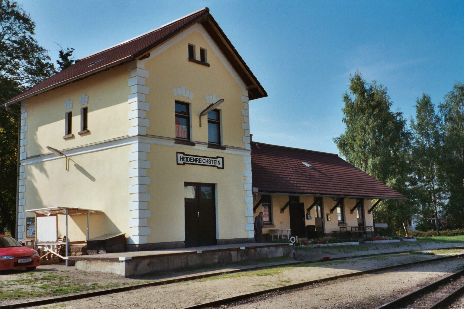 Railway station Heidenreichstein in Austria